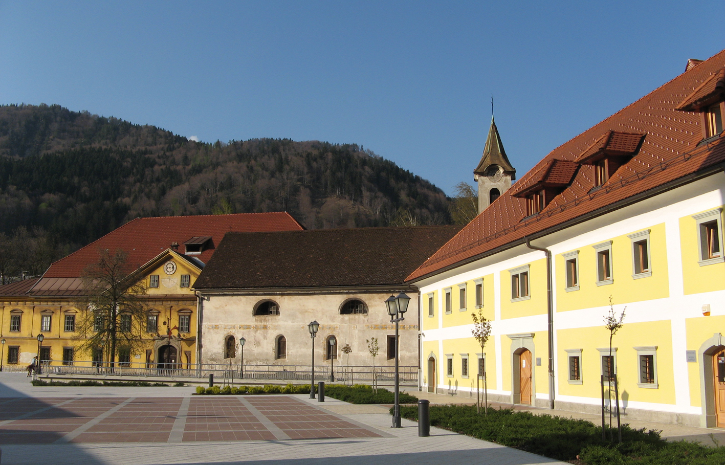 centre of Old Sava in Jesenice, Slovenia. From left to right: Ruard Manor, Assumption of Mary Church, Kasarna.